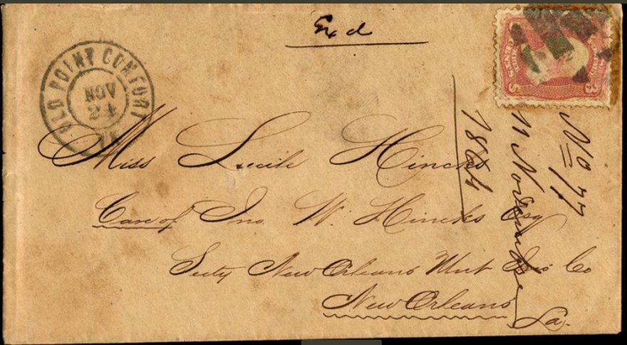 US mail, Civil War Flag of Truce Cover, bound for occupied New Orleans, w/ Washington 3-cent 1863 issue tied w/cancel.